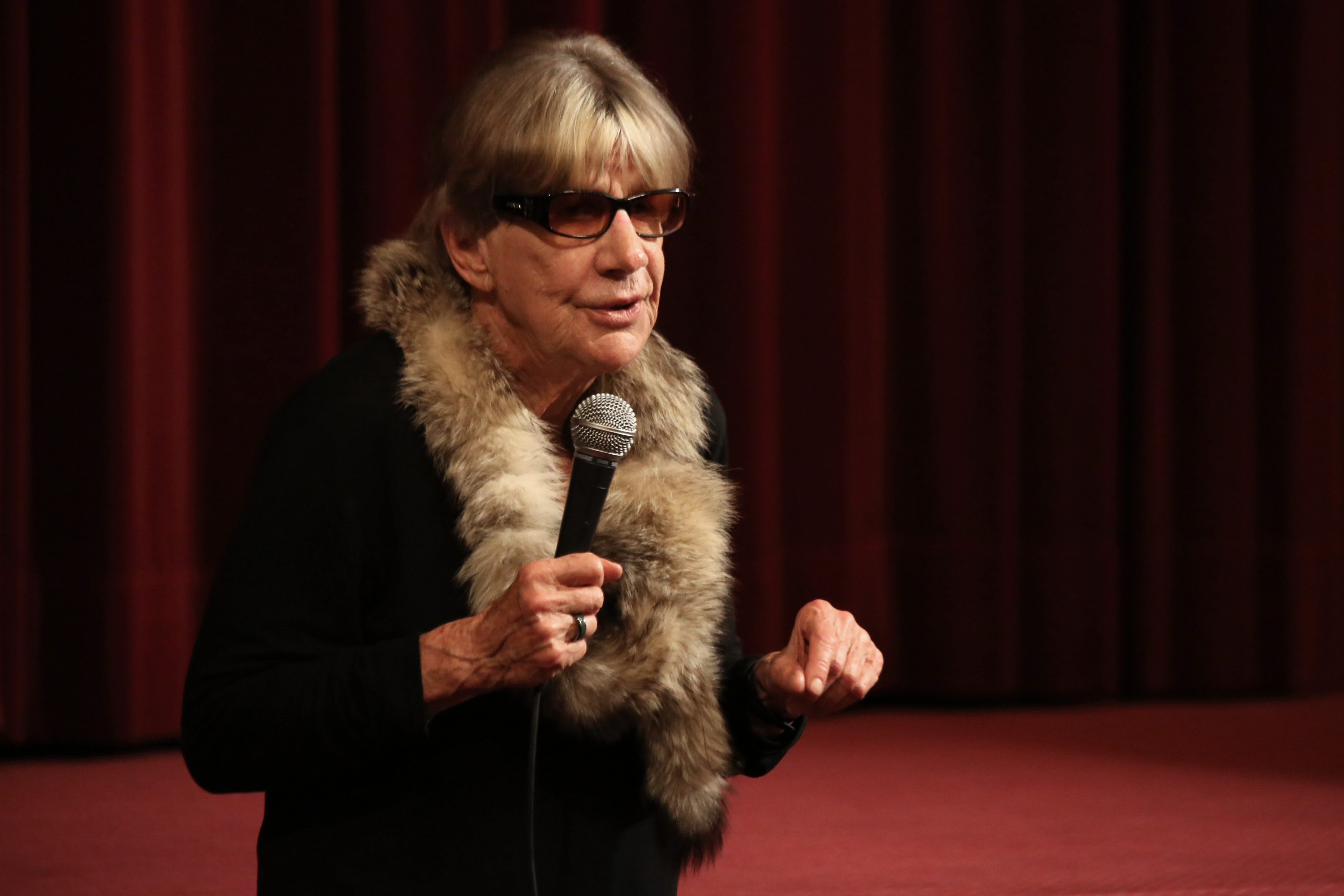 Narcisa Hirsch at Vienna International Film Festival 2012 (Metro-Kino).